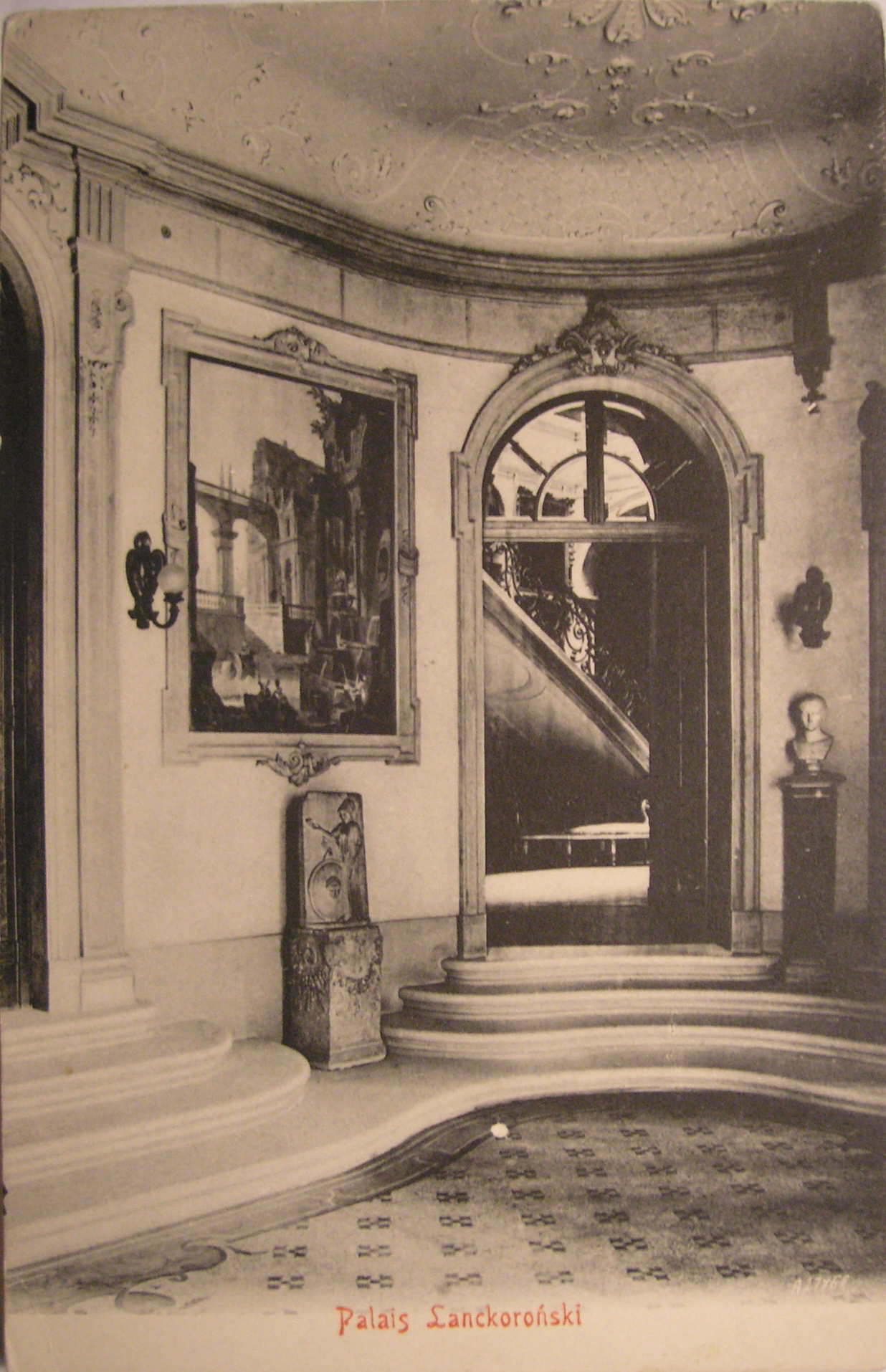 Image of the Palais Lanckoroński in Vienna, which was the private residence of Count Lanckoroński and his vast art collection, which was open to the public. The image is part of a post-card series that were made specifically for the building and its collection.